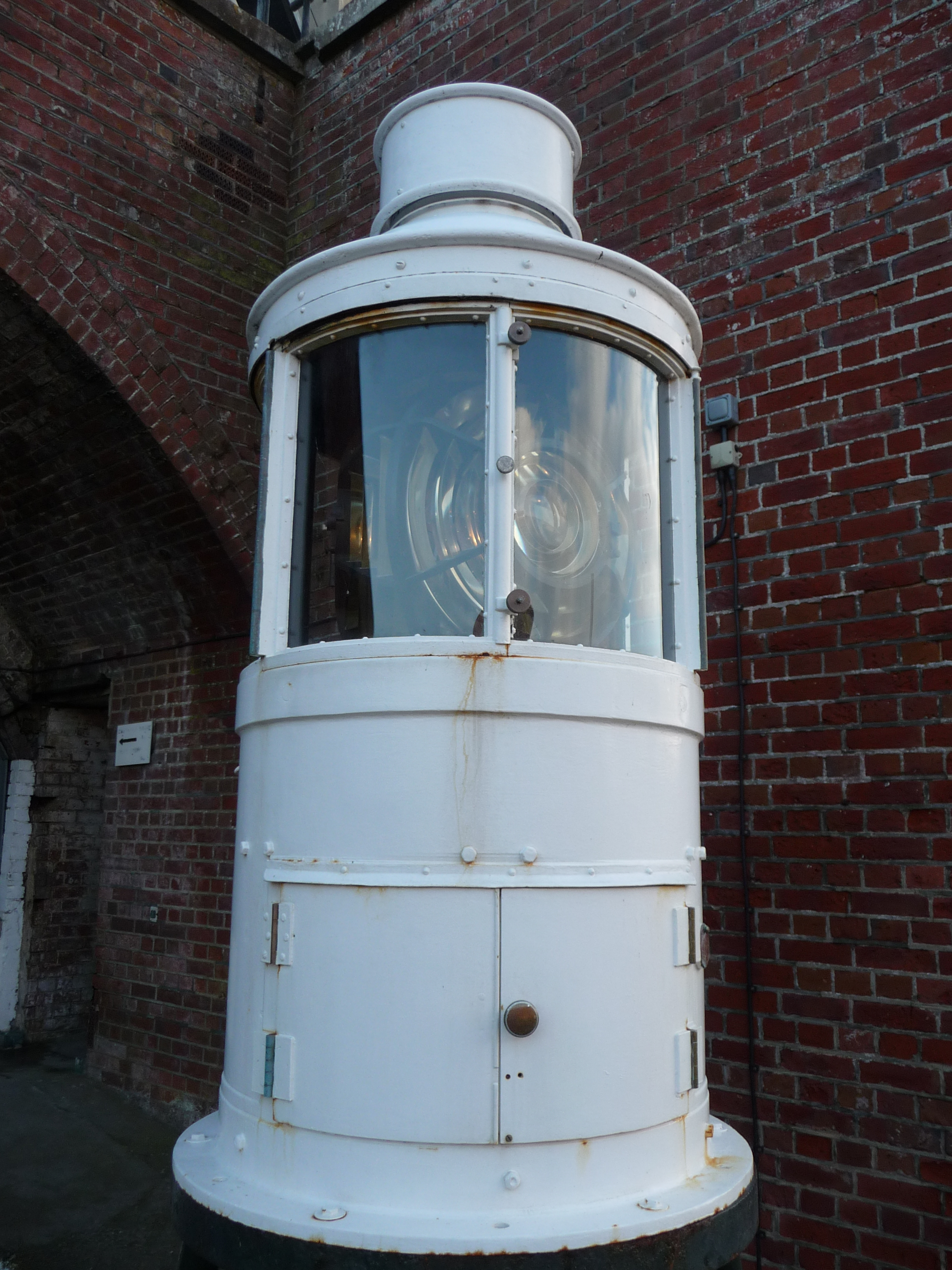 Hurst Castle : Little Lighthouse A lighthouse - not exactly warning ships of danger these days, but it looked nice as it rotated around.